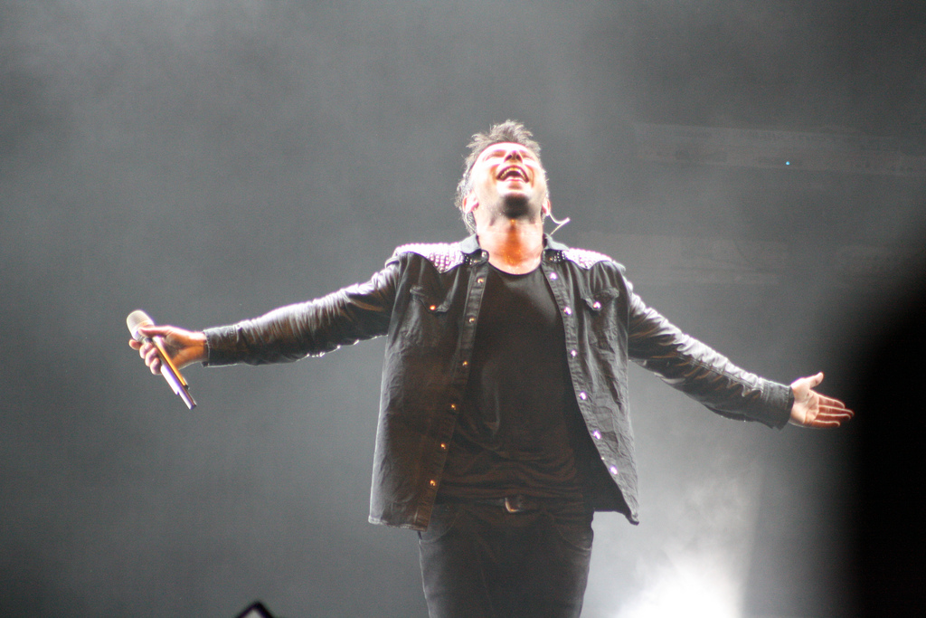 Turkish singer Tarkan.